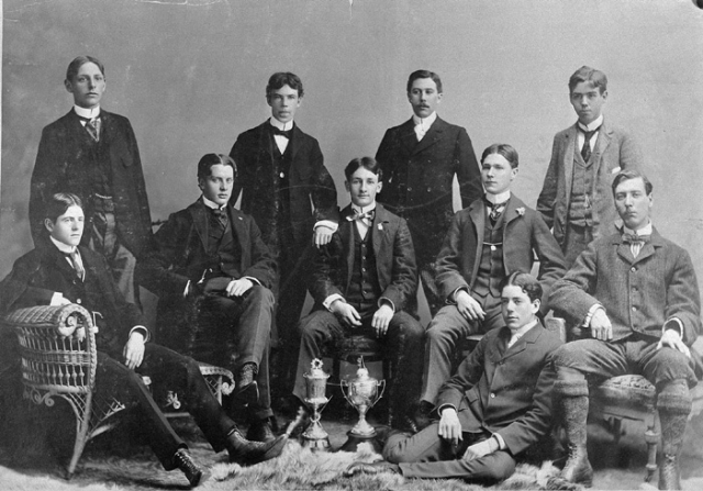 Photo of Toronto Wellingtons Hockey Club